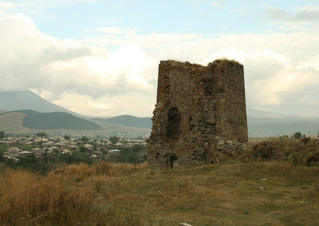 Akhalkalaki. Ruined fort